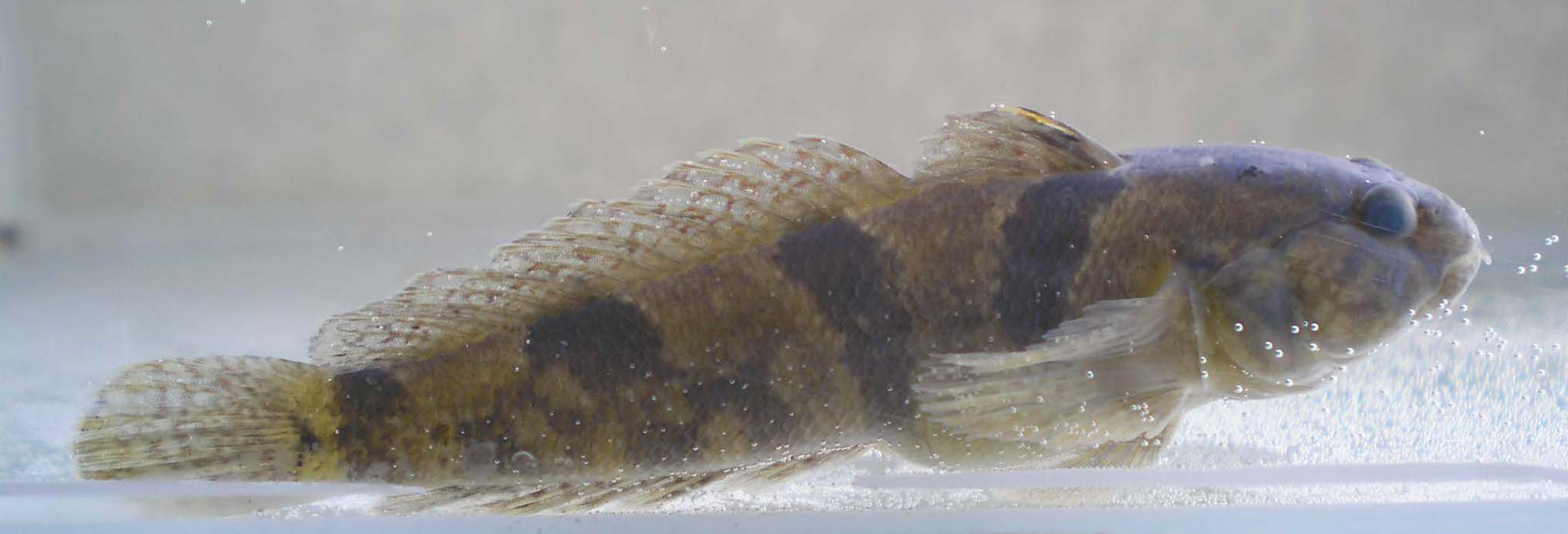 Marine tubenose goby (Proterorhinus marmoratus) from the Gulf of Odessa, Ukraine